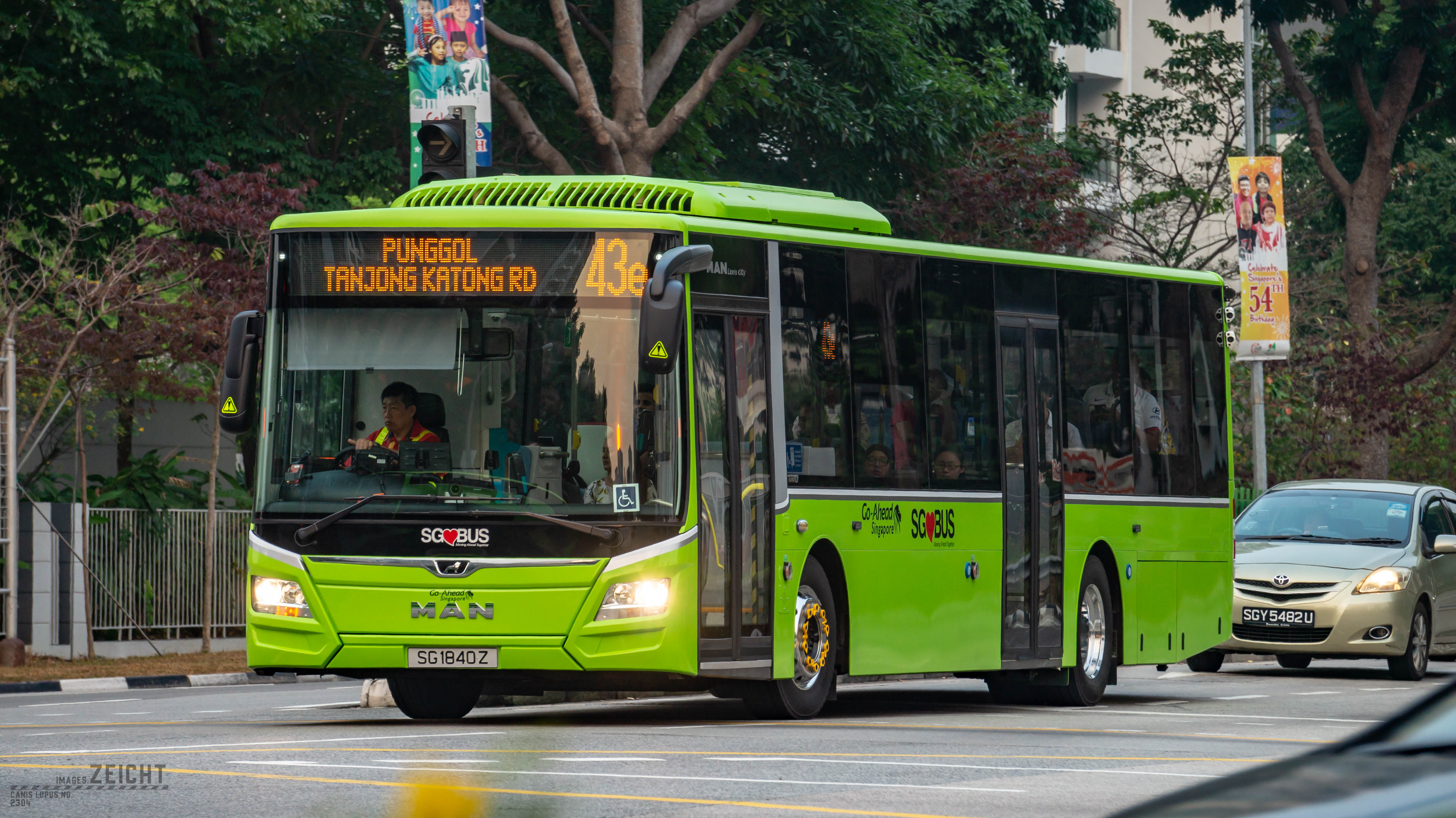 SG1840Z - 43e 43e is introduced as a peak hour service on 9th September 2019. It provides a new direct connectivity between Marine Parade & Paya Lebar to Buangkok, Sengkang and Punggol via KPE which is mostly unused by public bus services (except the returning trip of 518).